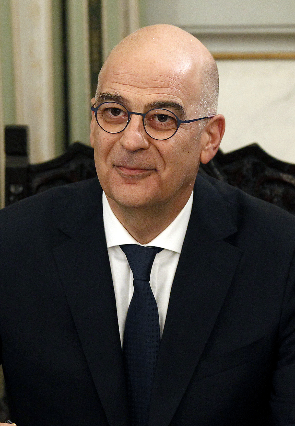 The Greek Foreign Minister Nikos Dendias during his inauguration at the Presidential Palace in Athens, July 2019